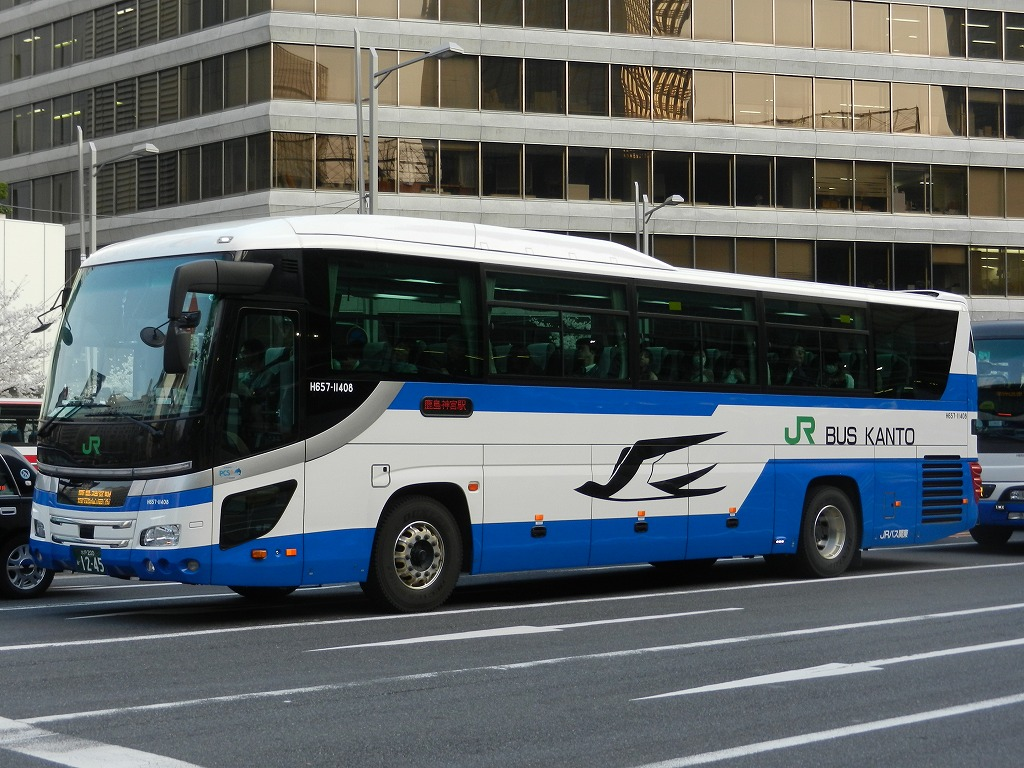 JR bus Kanto (Kashima depot) Hino S'elega (LKG-RU1ESBA)